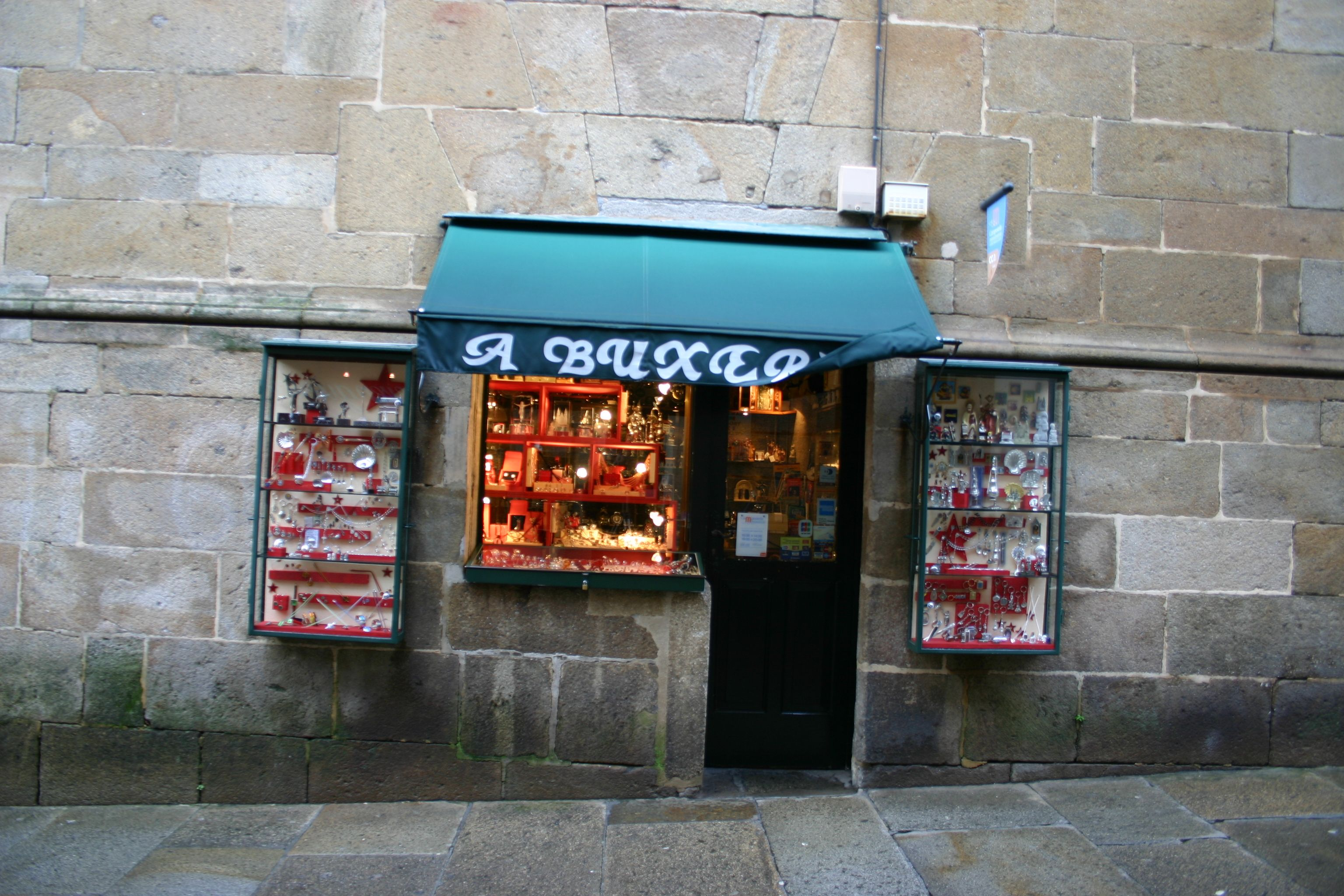 Shop in the lateral of the cathedral of Santiago de Compostela, Galicia (Spain). Author: User:Yearofthedragon